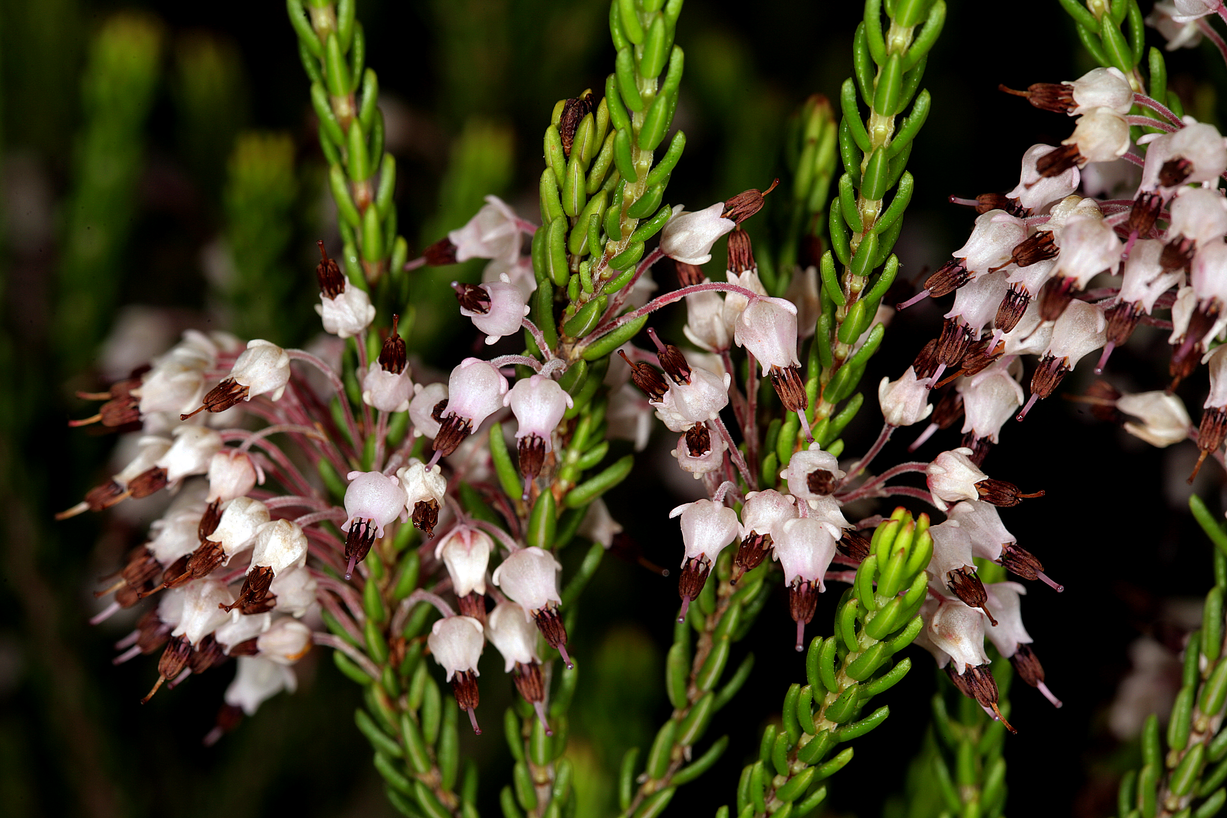 Erica scytophylla, flowers; Kirstenbosch National Botanical Garden, Cape Town, Western Cape, South Africa